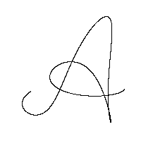 Parametric plot of the curve f x ( τ ) = 0.20 + 0.45 cos ⁡ ( τ + 3.09 ) + 0.44 cos ⁡ ( 2 τ + 1.54 ) + 0.36 cos ⁡ ( 3 τ + 2.06 ) + 0.20 cos ⁡ ( 4 τ − 3.12 ) + 0.09 cos ⁡ ( ( 5 τ − 2.86 ) f y ( τ ) = − 0.20 + 0.22 cos ⁡ ( τ − 2.08 ) + 0.46 cos ⁡ ( 2 τ + 2.78 ) + 0.46 cos ⁡ ( 3 τ + 0.55 ) {\displaystyle {\begin{aligned}f_{x}(\tau )=\;\;0.20&+0.45\cos(\tau +3.09)+0.44\cos(2\tau +1.54)+0.36\cos(3\tau +2.06)\\&+0.20\cos(4\tau -3.12)+0.09\cos((5\tau -2.86)\\f_{y}(\tau )=-0.20&+0.22\cos(\tau -2.08)+0.46\cos(2\tau +2.78)+0.46\cos(3\tau +0.55)\end{aligned } with τ ∈ [ 0 , 5.55 ] {\displaystyle \tau \in [0,5.55]}